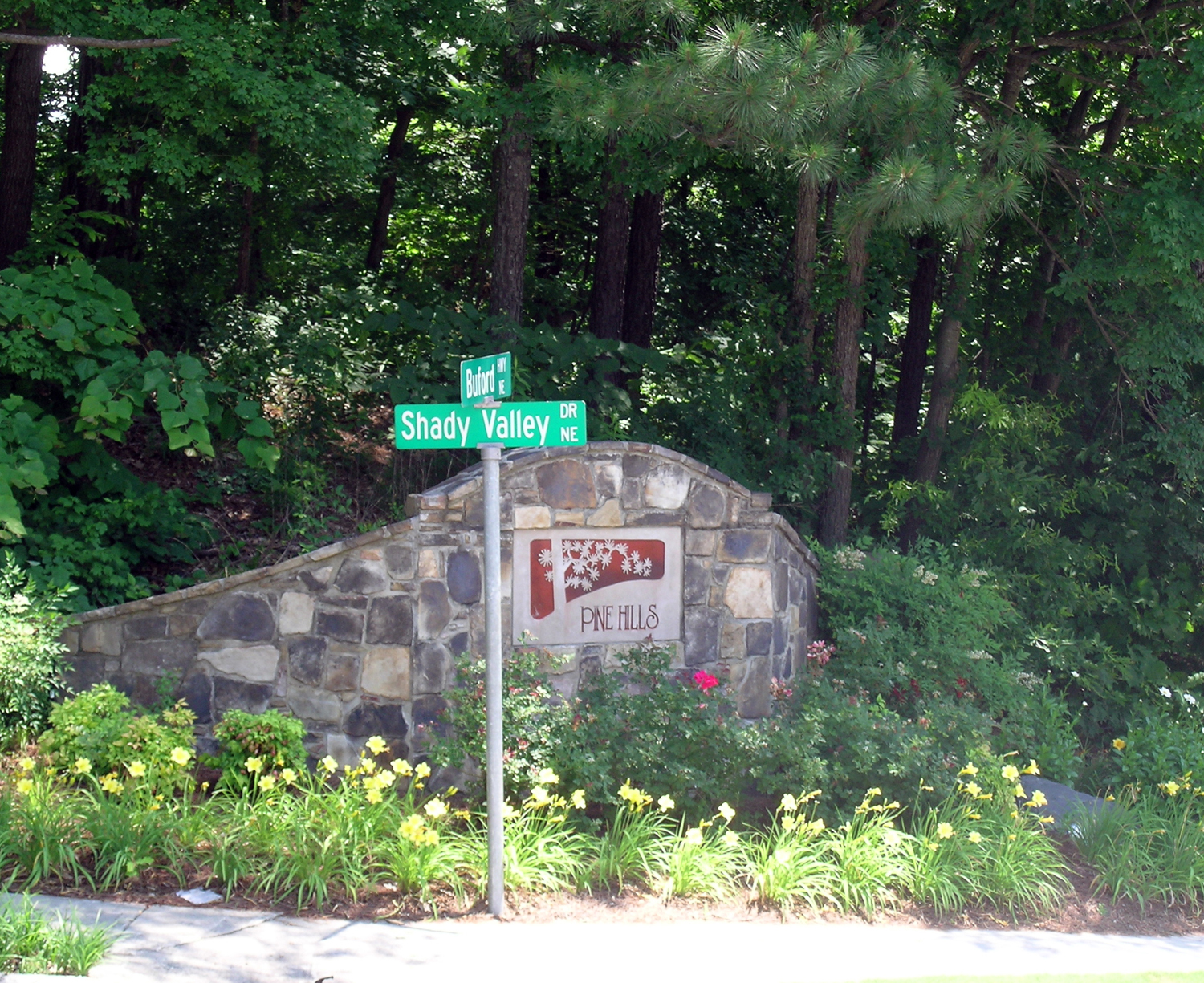 Entrance sign for Pine Hills in Atlanta, US, at Buford Highway and Shady Valley Drive intersection.